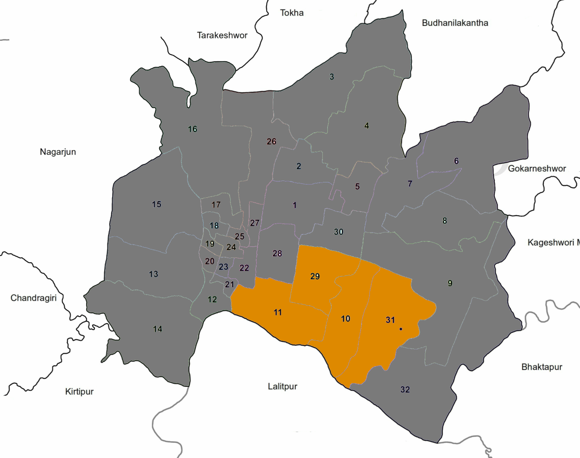 A map of Kathmandu 1 Parliamentary Constituency within Kathmandu metropolitan city